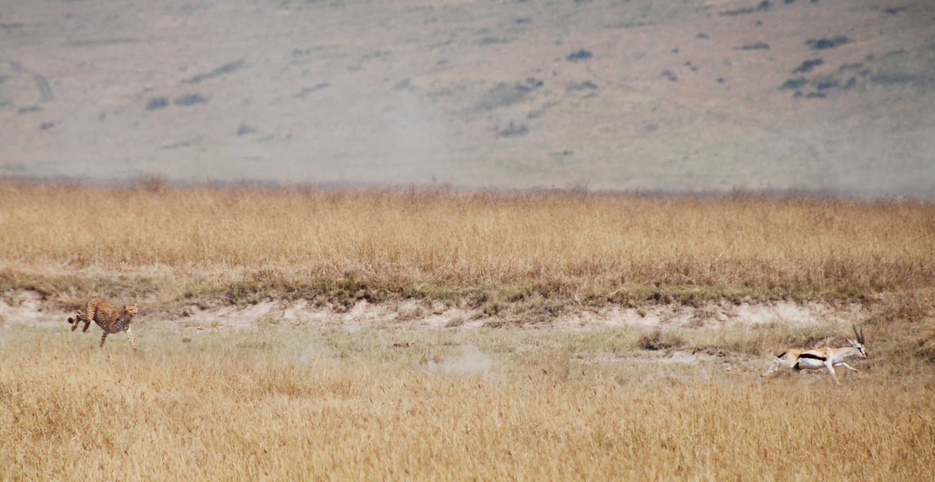 Cheetah (Acinonyx jubatus) in pursuit of a Thompson's gazelle (Gazella thomsonii ). Ngorongoro Crater, Tanzania. Photo by Lee R. Berger. The cheetah uses its camouflage and speed to catch its prey.